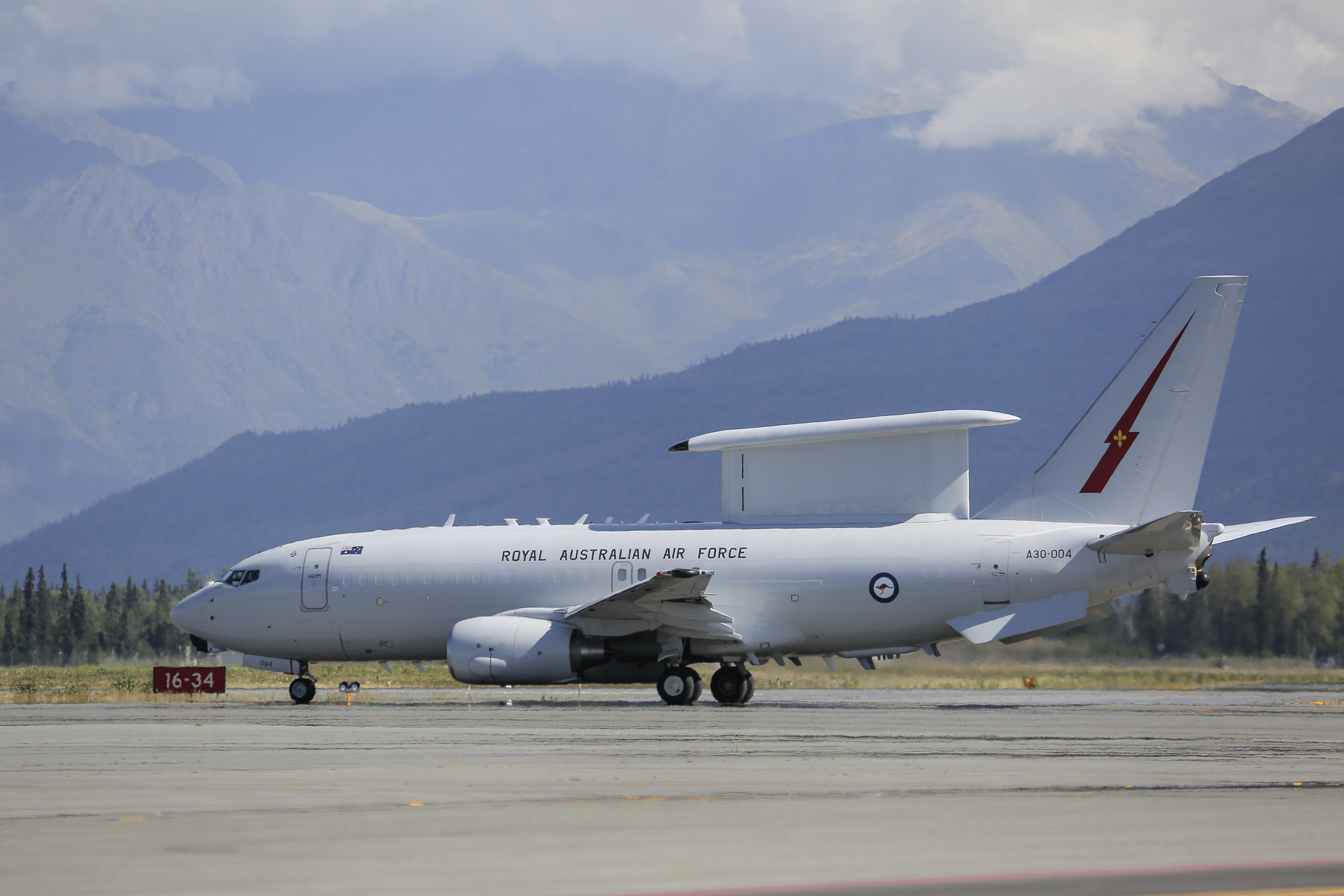 A Royal Australian Air Force E-7A Wedgetail Airborne Early Warning and Control aircraft taxis before takeoff on Joint Base Elmendorf-Richardson, Alaska, Aug. 14, 2015. The RAAF contingent is on JBER to participate in Red Flag-Alaska, a series of Pacific Air Forces commander-directed training exercises for U.S. and international forces to provide joint offensive, counter-air, interdiction, close air support, and large force employment in a simulated combat environment. (U.S. Air Force photo/Alejandro Pena)